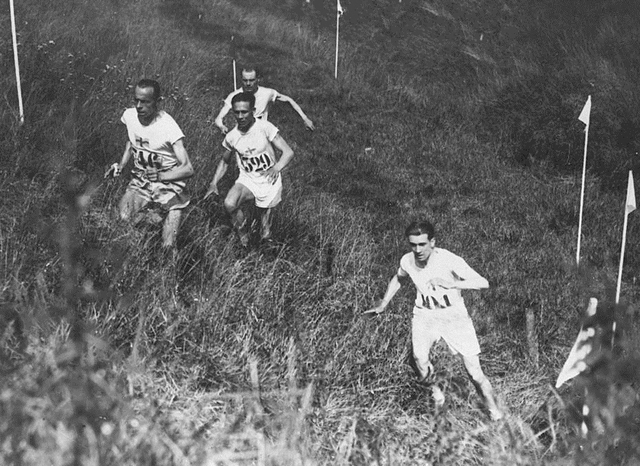 Paavo Nurmi (right) of Finland is followed by Edvin Wide #746 of Sweden and Vilho Ritola (right) of Finland during the Individual Cross Country event at the 1924 Olympic Games in Paris. Nurmi won the gold and Ritola the silver medal.